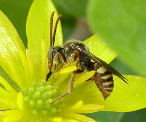 Nomadinae bee (Nomada, Nomada ruficornis species group) on lesser celandine. Pennypack Restoration Trust, Montgomery County, Pennsylvania, USA. (no higher resolution)